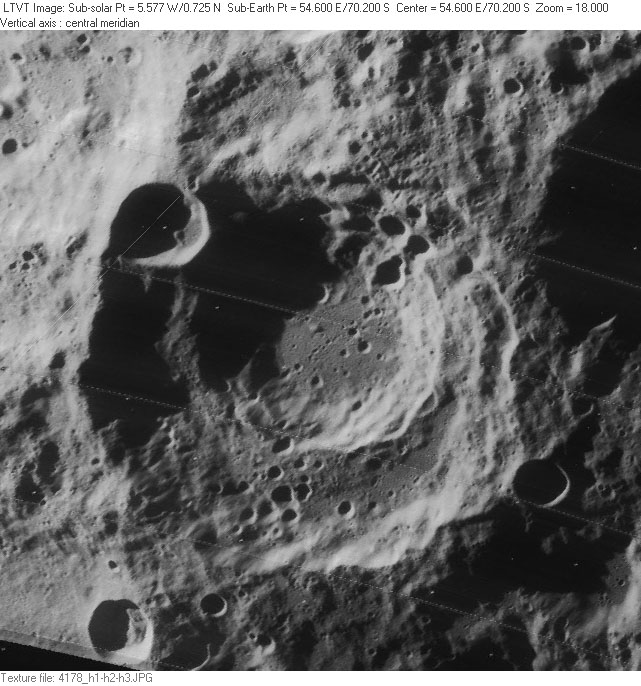 Crater Boussingault. Detail from Lunar Orbiter IV-178H. High resolution scans from the USGS Lunar Orbiter Digitization Project remapped to a north-up aerial view by LTVT.